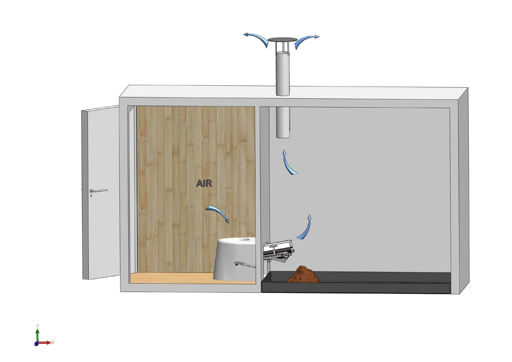 Air extraction is done in the composting chamber, thus forcing air from the toilet room to the composting chamber and ensuring absence of odour. L'aspiration d'air est faite par le local de compostage, créant un flux d'air de la pièce des toilettes vers le local de compostage. De cette façon, il n'y a jamais d'odeur dans les toilettes. Drawing: Emmanuel Morin, France, 2010